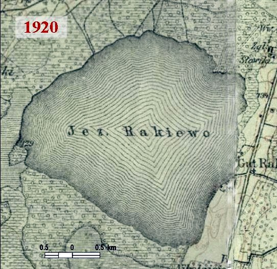 Lake Rėkyva, Lithuania